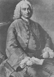 Ralph Allen (1694-1763).